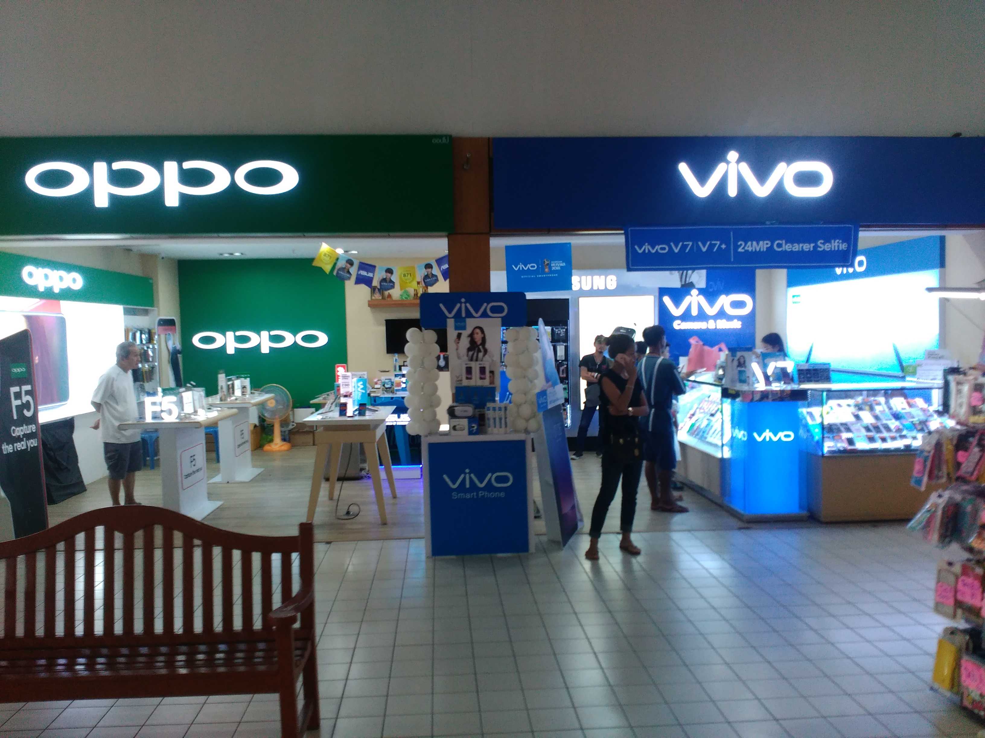 Big C BangBon - BangBon Bangkok 28.10.2017